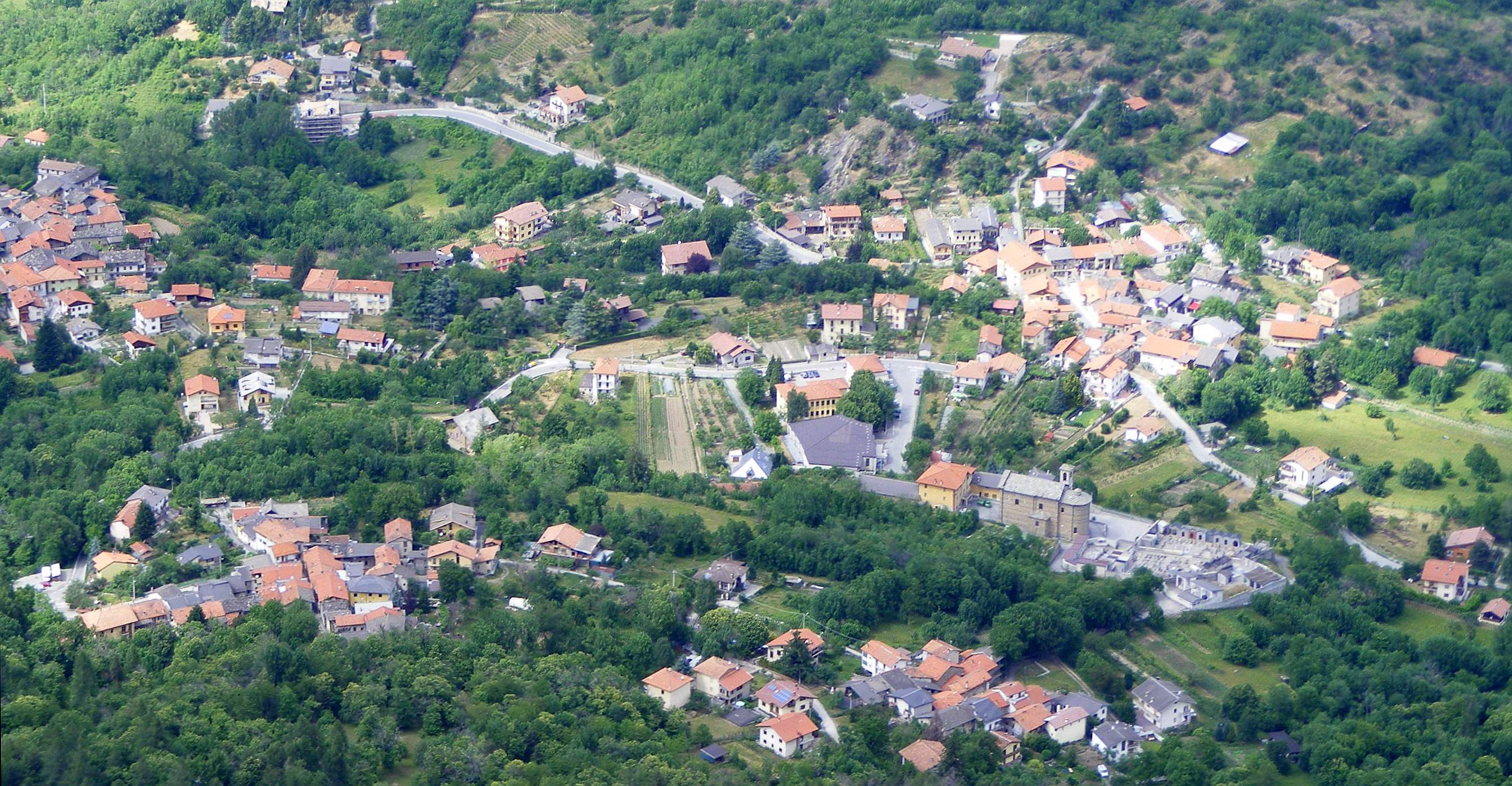 Meana di Susa (TO, Italy): panorama from Monte Fassolino